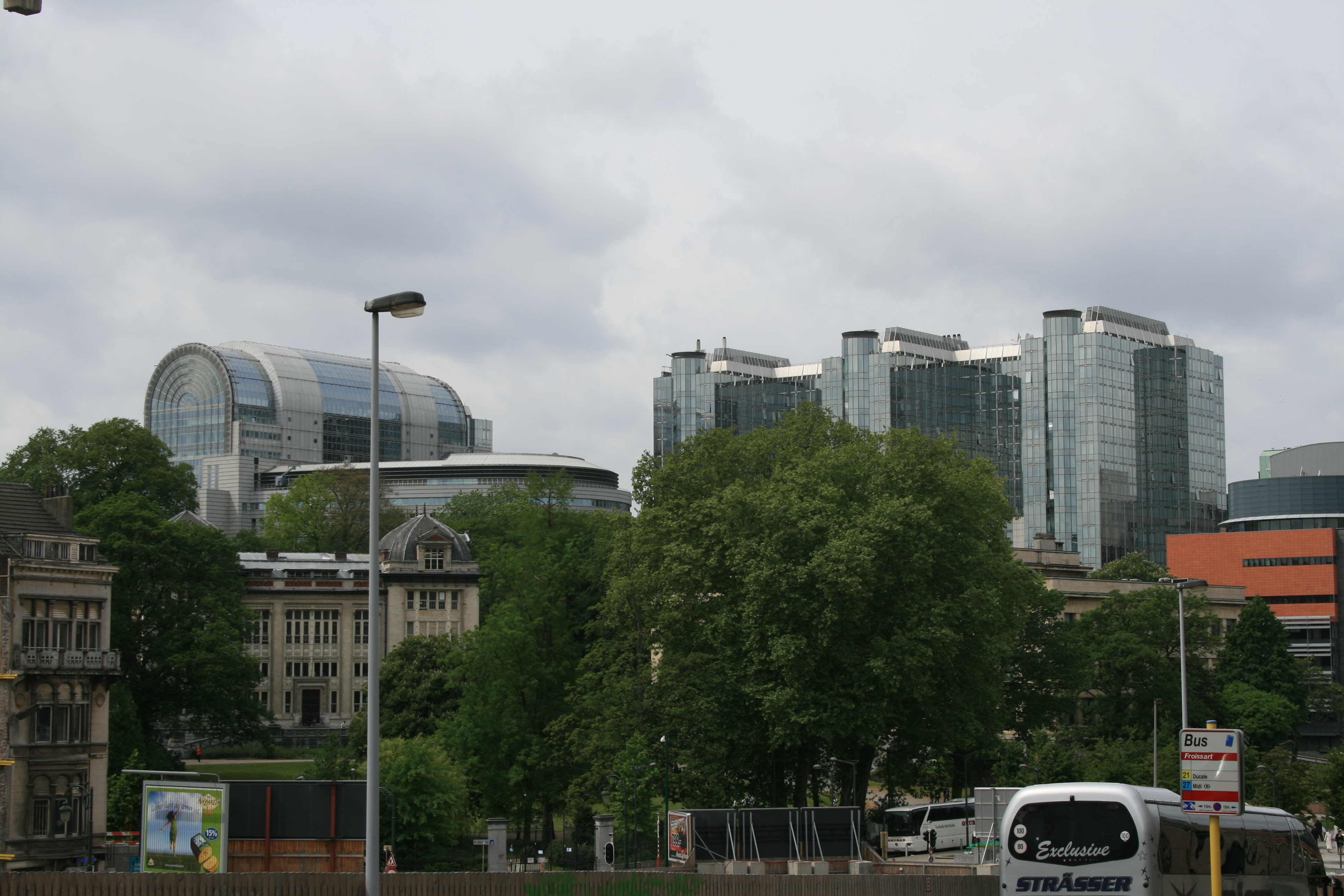 European Parliament - group of buildings seen from East